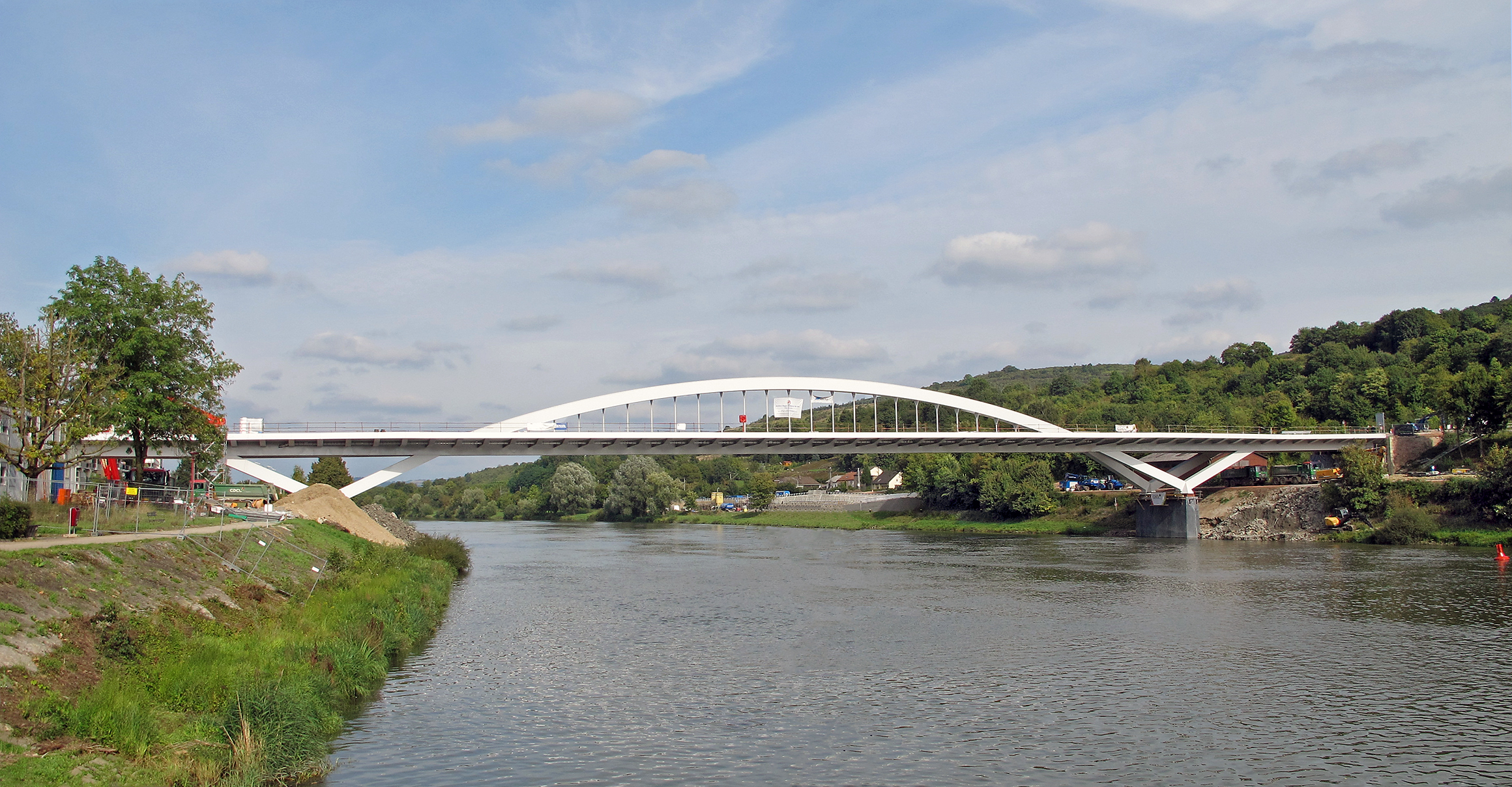 New bridge over the moselle river in Grevenmacher - Wellen